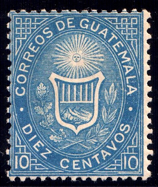 Guatemala first issue, March 1871 coat of arms, 10 centavos blue, mint, perforated 14x13.5. Engraved by Ferdinand Joubert (1810-1884). Typographed by the Government Mint, Paris. Printed in sheets of 150. Issued for domestic and outbound mail letters. 1871 Postal Rates: 6 Centavos- Single internal rate 12 Centavos - Double internal rate 12 Centavos - Single outbound rate 24 Centavos - Double outbound Rate 12 Centavos - Addtional Weight Per Ounce or Fraction Thereof. First half of 1872, Postal Rates: 5 Centavos- Single internal rate 10 Centavos - Double internal rate 10 Centavos - Single outbound rate 20 Centavos - Double outbound Rate 10 Centavos - Addtional Weight Per Ounce or Fraction Thereof. Catalogue: Sc. 3